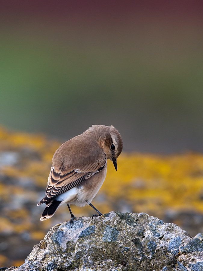 A female Northern Wheatear in Maidens, South Ayrshire, Scotland.